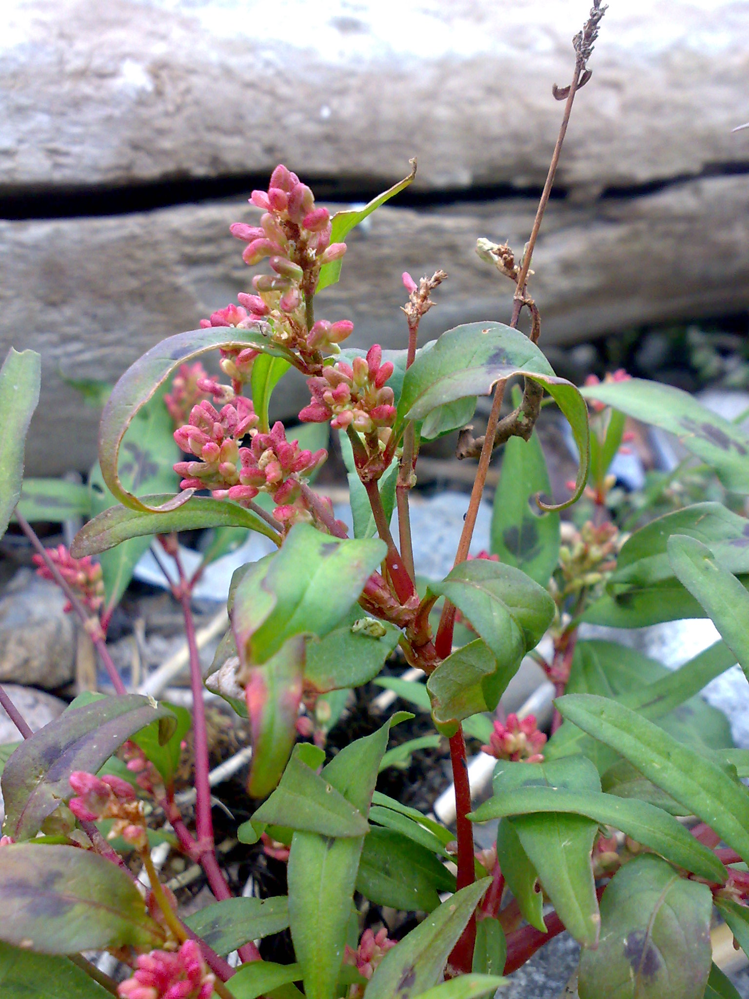 Persicaria maculosa in southwestern Jelöya, Moss, Norway